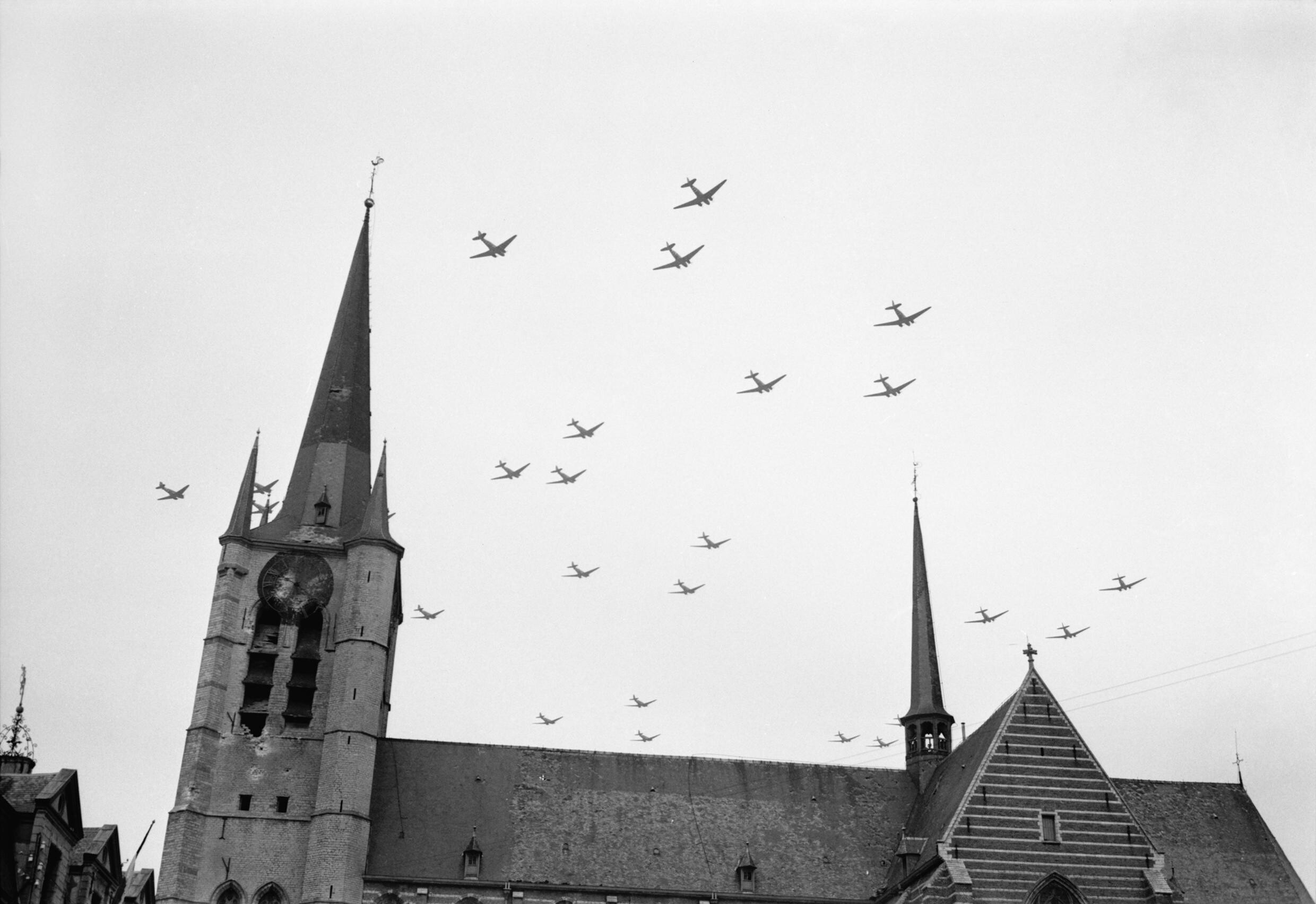 American C-47 aircraft flying over Gheel in Belgium on their way to Holland for Operation 'Market-Garden' , 17 September 1944. American C-47 aircraft flying over Gheel in Belgium on their way to Holland for Operation 'Market-Garden' , 17 September 1944.